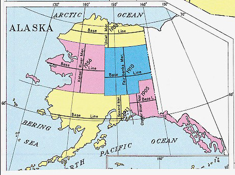 U.S. Bureau of Land Management map showing principal meridians and base lines used for cadastral surveys.